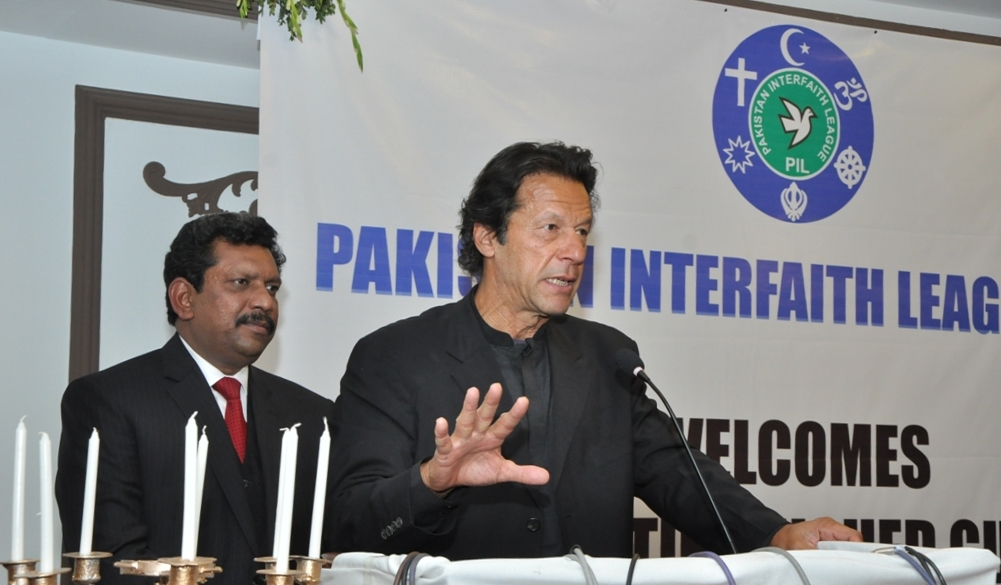 Chairman PTI Imran Khan addressing on the occasion of Interfaith Christmas Dinner 2014.